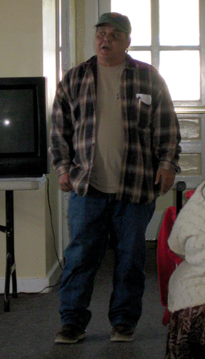 Richard Bugbee (Pyoomhawichum aka Luiseño) speaking at an Advocates for Indigenous California Language Survival "Language Is Life" conference at the Marin Headlands. He serves on the AICLS board and is Associate Director and Curator of the American Indian Culture Center and Museum in San Diego as well as the Director and Curator of the Kumeyaay Culture Center.